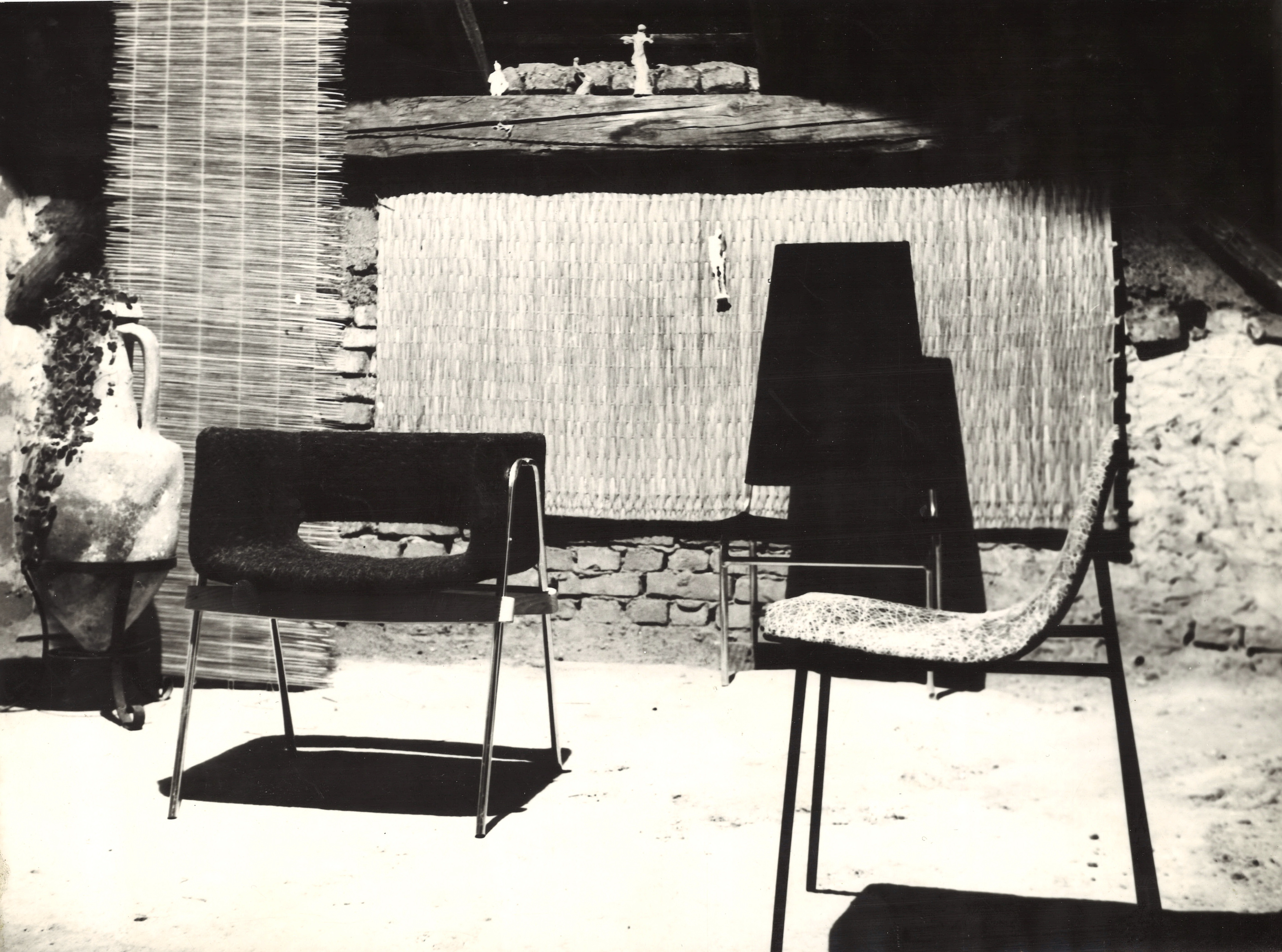 Joint solo exhibition of the Studija sedišta in the Modern House at Terazije, Gojko Varda with his colleague Miroslav Pesic in 1959